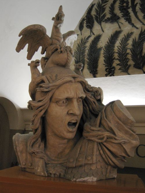 Cast of the head of a figure from Francois Rude's sculpture "La Marseillaise" in the Arc de Triomphe in Paris. Photograph taken by Michael Reeve, 29 January 2004. The sculpture was modelled on Rude's wife Sophie.